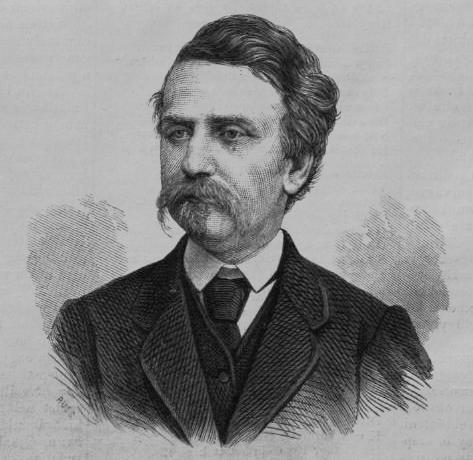 Portrait of Gyula Szapáry